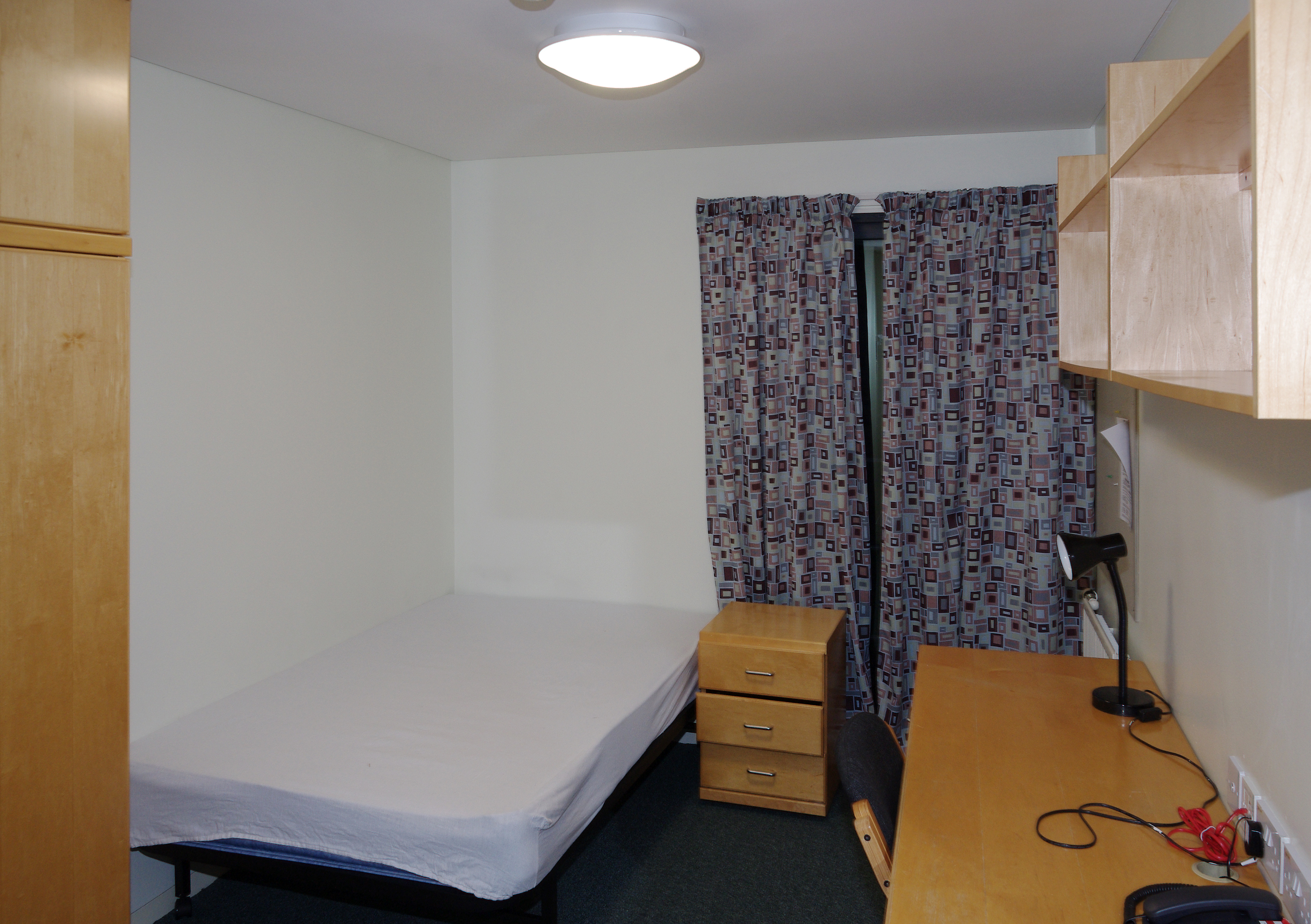 Interior of Melton Hall room B60 on Jubilee Campus, University of Nottingham. This is a standard en-suite single study bedroom, on the lakeside (south side) of the hall. Rooms on the north side are larger, but only get a view of a car park. A standard bedroom comes equipped with: 1 desk, with 8 drawers 1 desk chair 1 sideboard with 3 drawers Pinboard Shelf Bed with mattress Cupboard. The bathroom has a shower, basin, toilet, some holders and a few towel pegs.